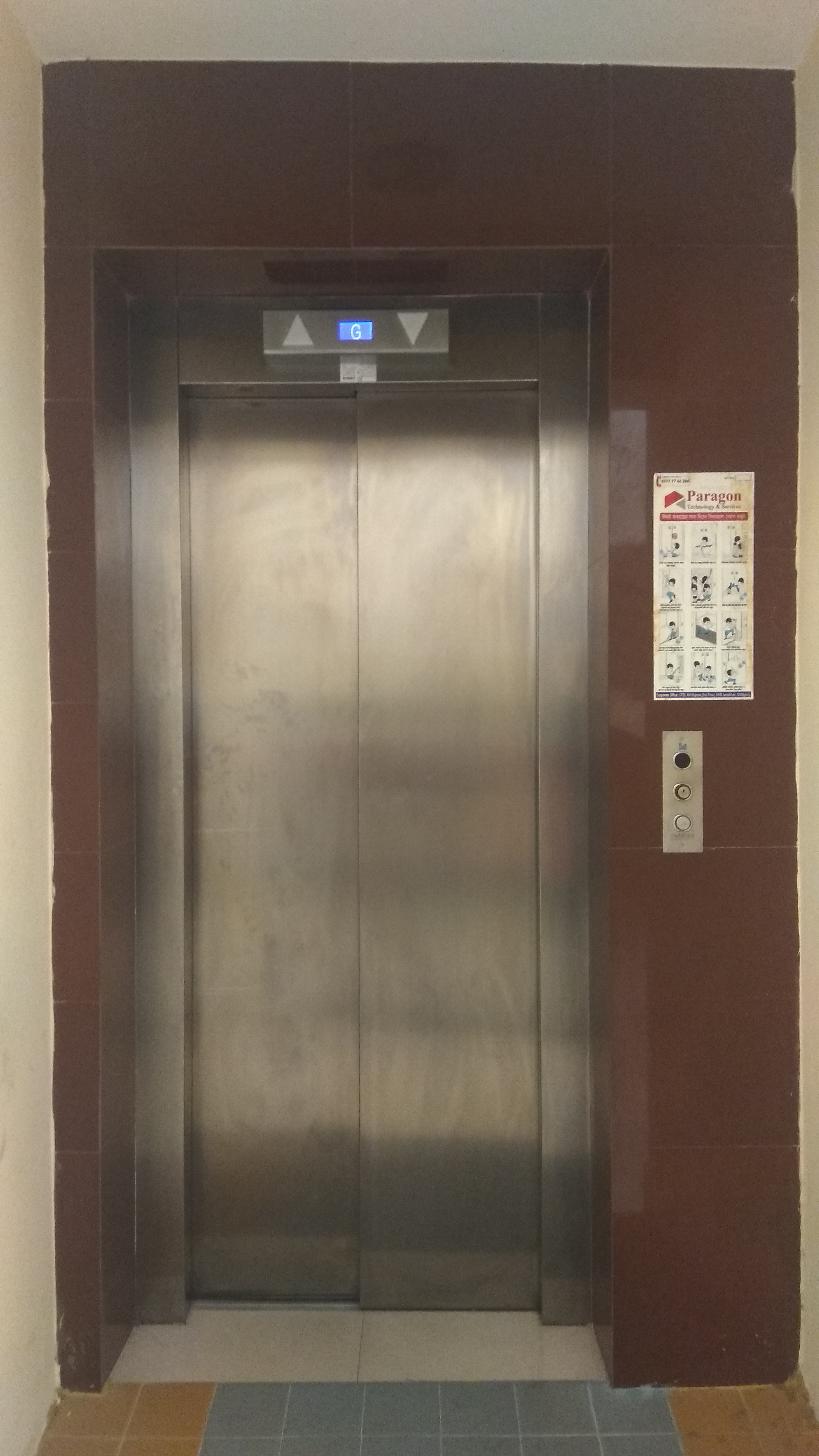 This image is about the elevator of fisheries building of CVASU.